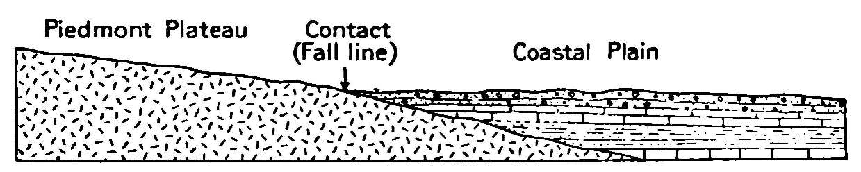 Figure 2 Original caption: "Generalized section showing relations of the Coastal Plain formations to the Piedmont Plateau crystalline rocks." The contact is called the Fall line, an unconformity.